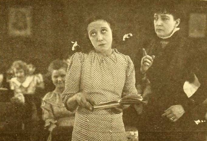 Still from the American film Sis Hopkins (1919) with Mabel Normand and Eugenie Forde (1879 – 1940), on page 751 of the February 8, 1919 Moving Picture World.